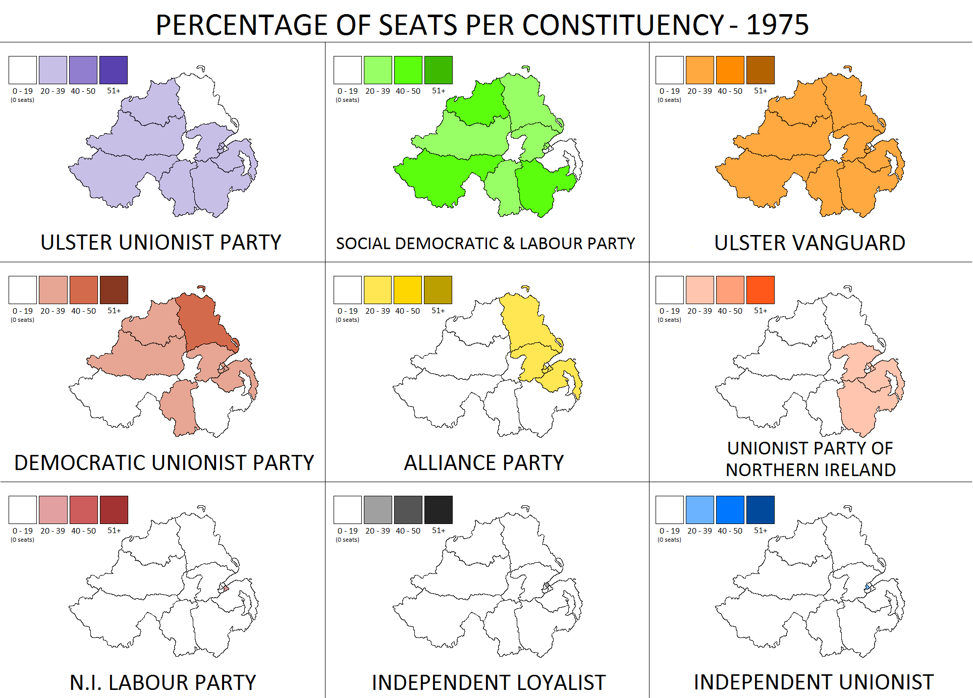 Map showing the results of the Northern Ireland Constitutional Convention of 1975.